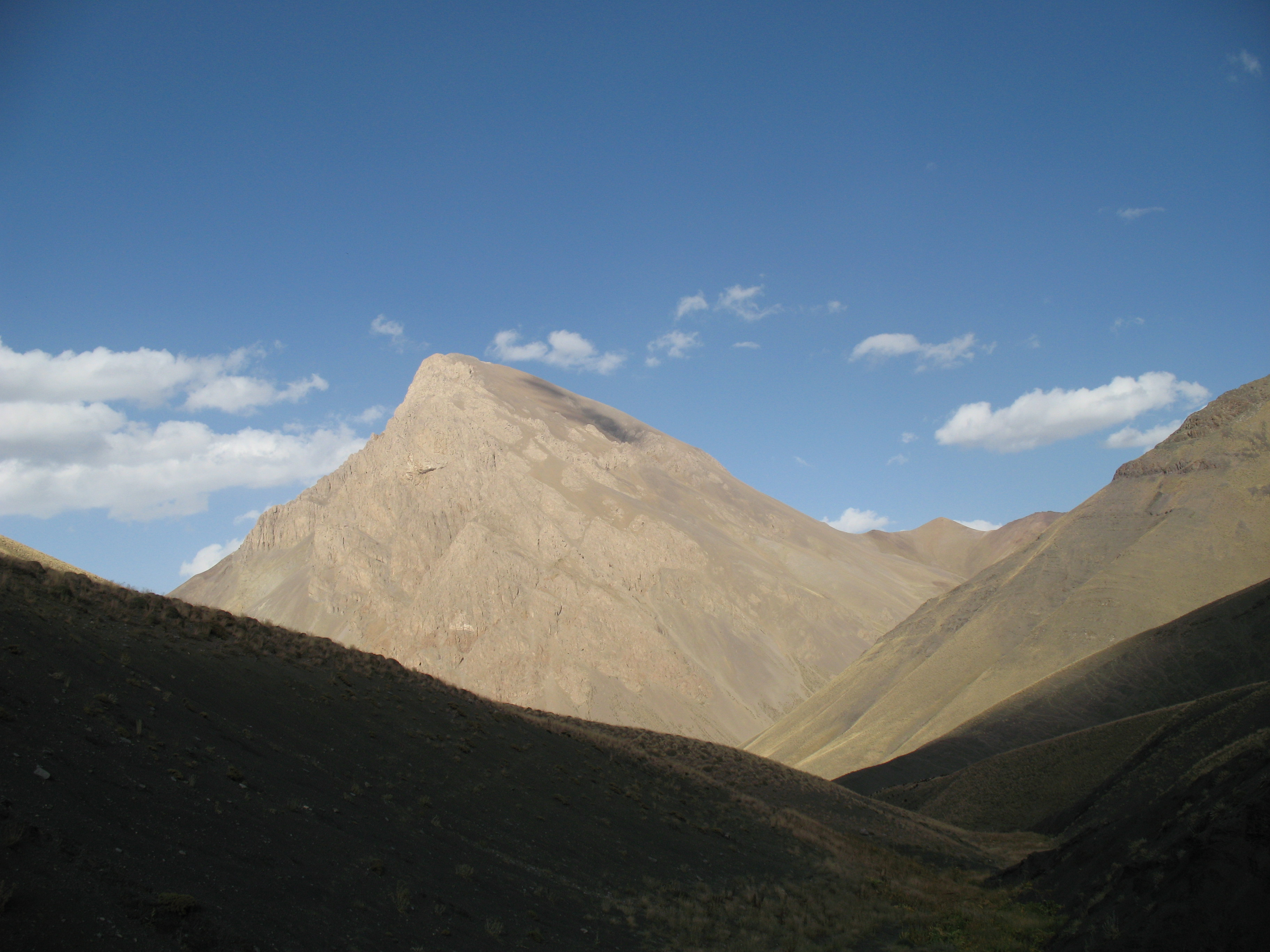 Azad Kuh